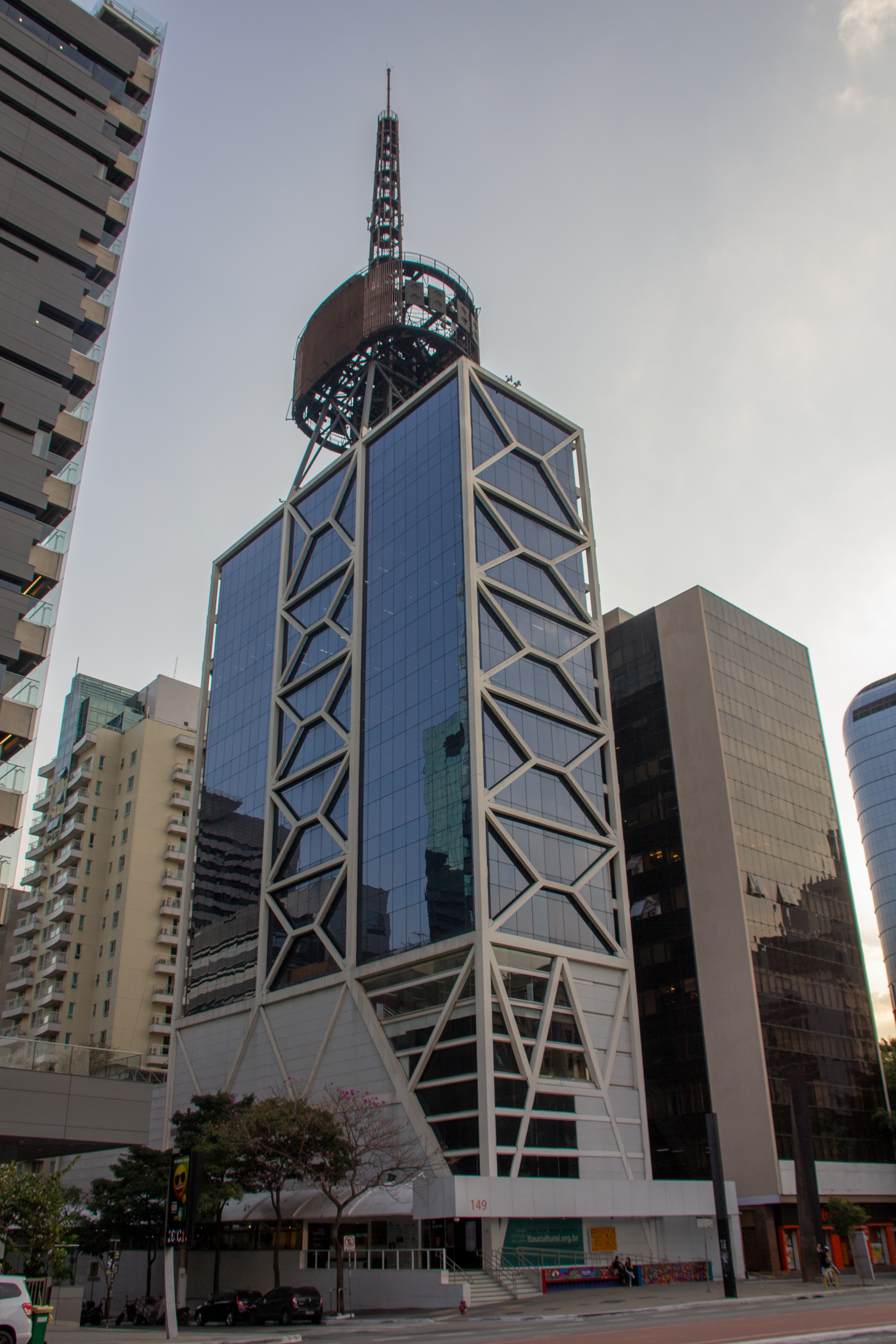 At Paulista Avenue, São Paulo, Brazil